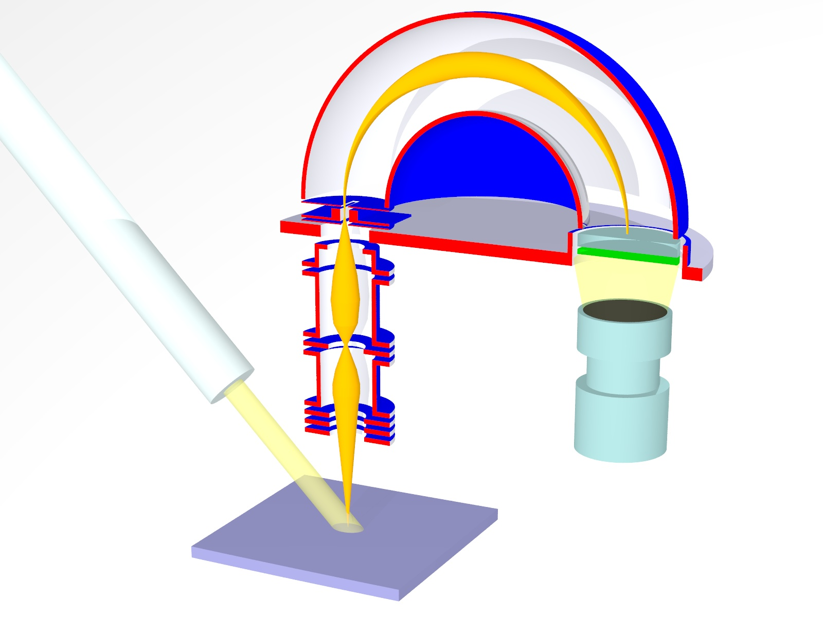 revisited work of File:PES1.jpg with better light, smoother electron path and less shadows